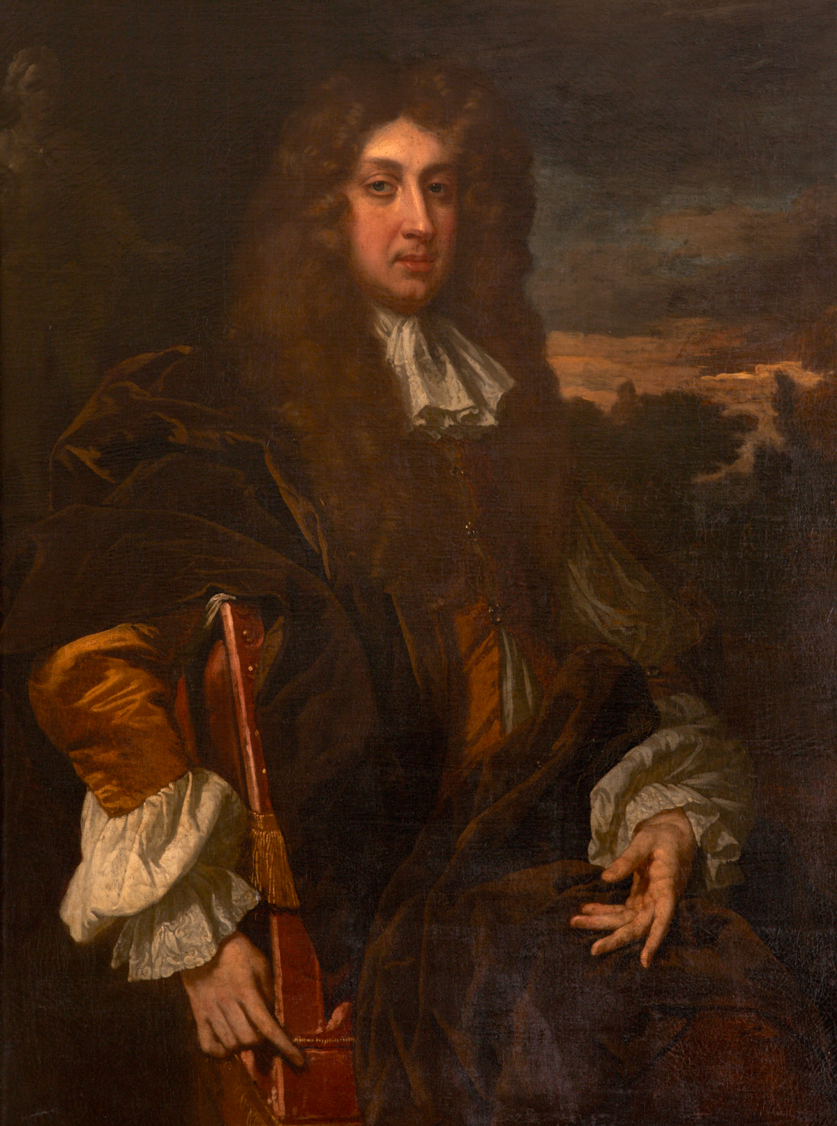 Portrait of John Coventry